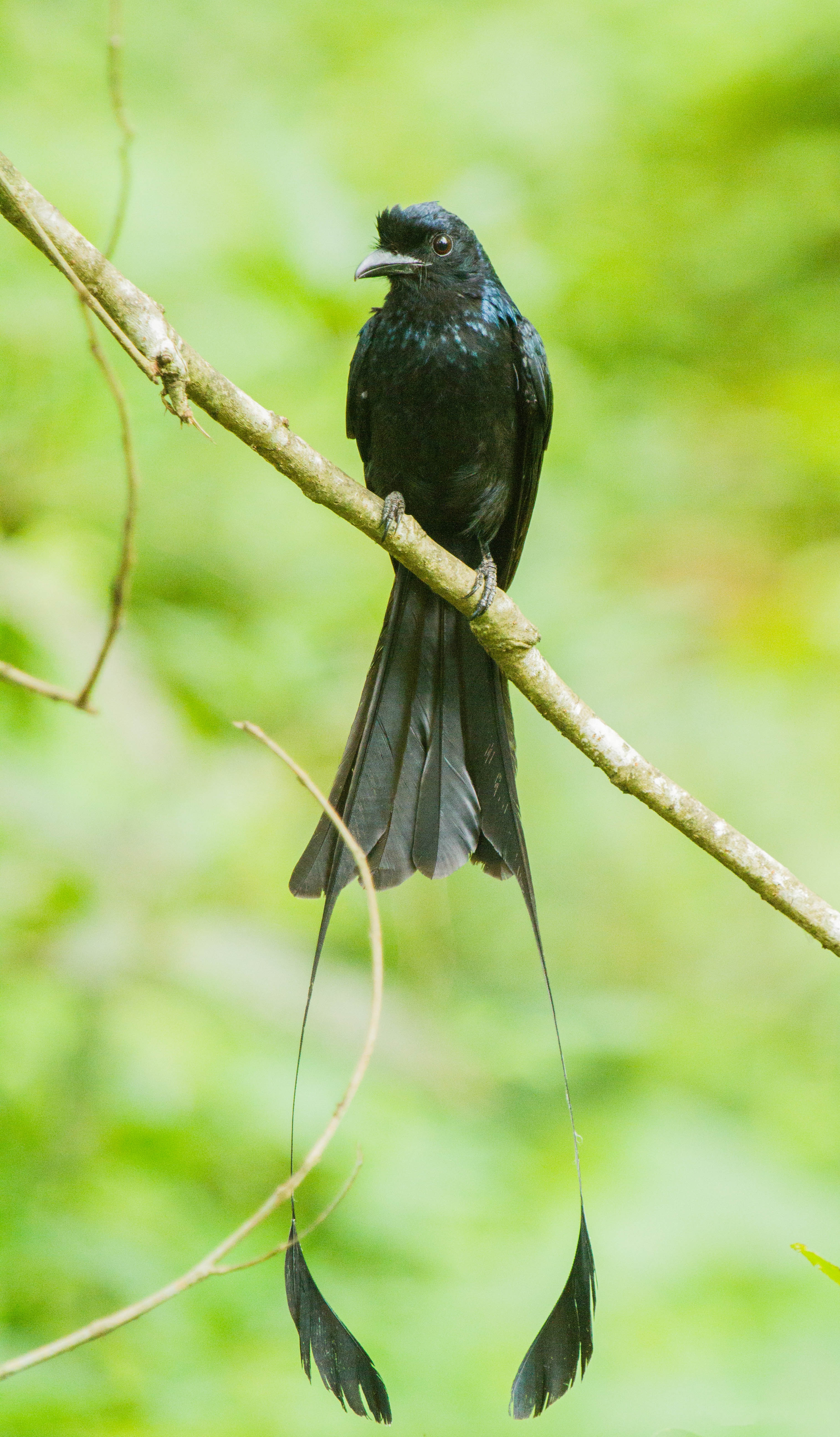 Species: Greater Racket-tailed Drongo (Dicrurus paradiseus) Location: Nilambur, Kerala, India